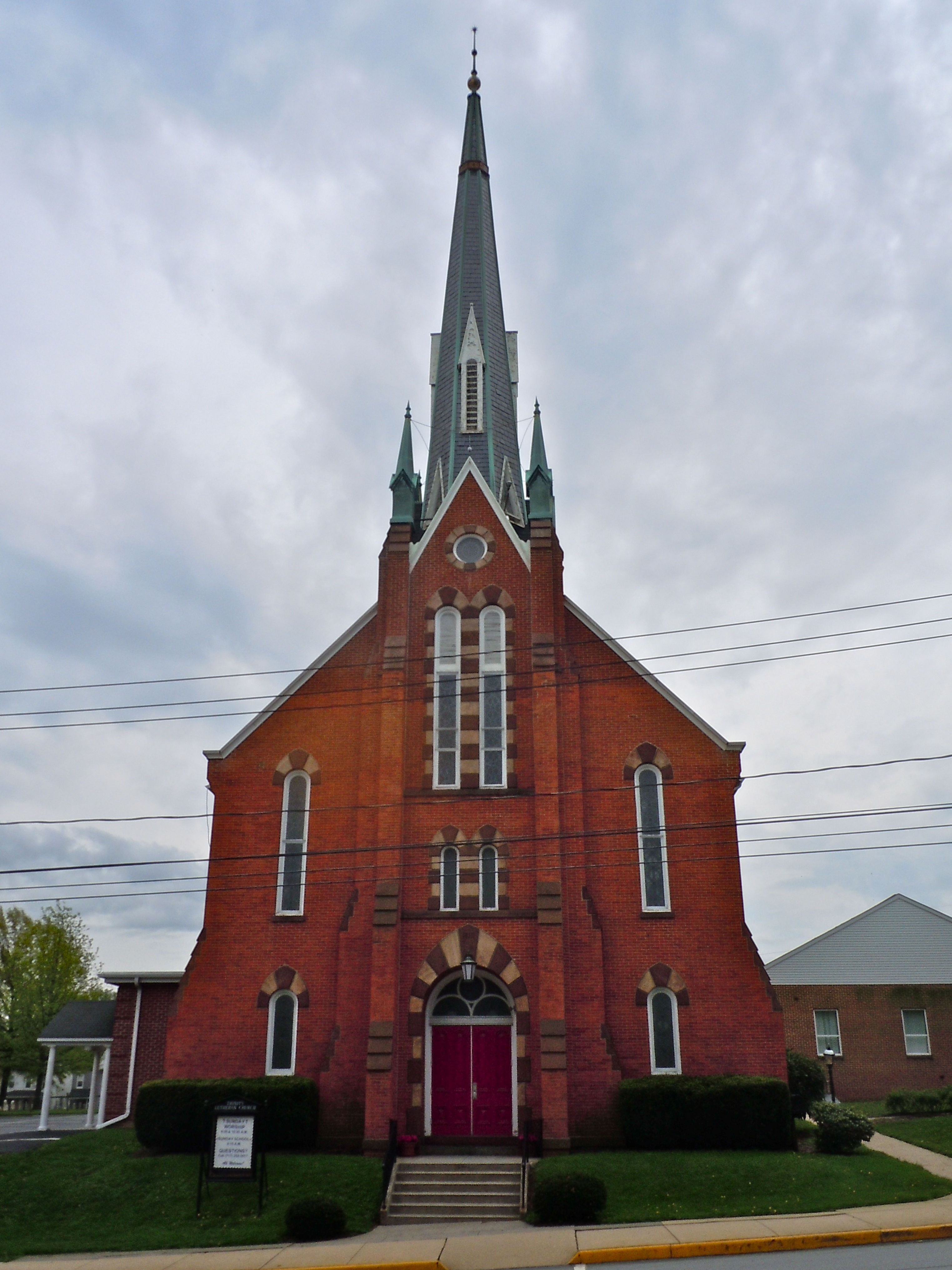 Lutheran church in Wrightsville Historic District on the NRHP since September 12, 1983. The Historic district is roughly bounded by the Susquehanna River and Vine, 4th, and Willow Streets, Wrightsville, York County, Pennsylvania. The town was a historic crossing of the Susquehanna River, first by ferry then by RR bridge. Church on U.S. 30.